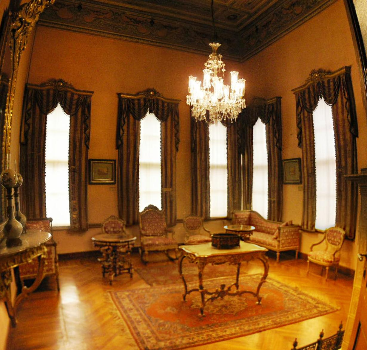 One of the the apartments of a royal consort (Kadınefendi Dairesi), Dolmabahçe Palace. (#25 of the tour).